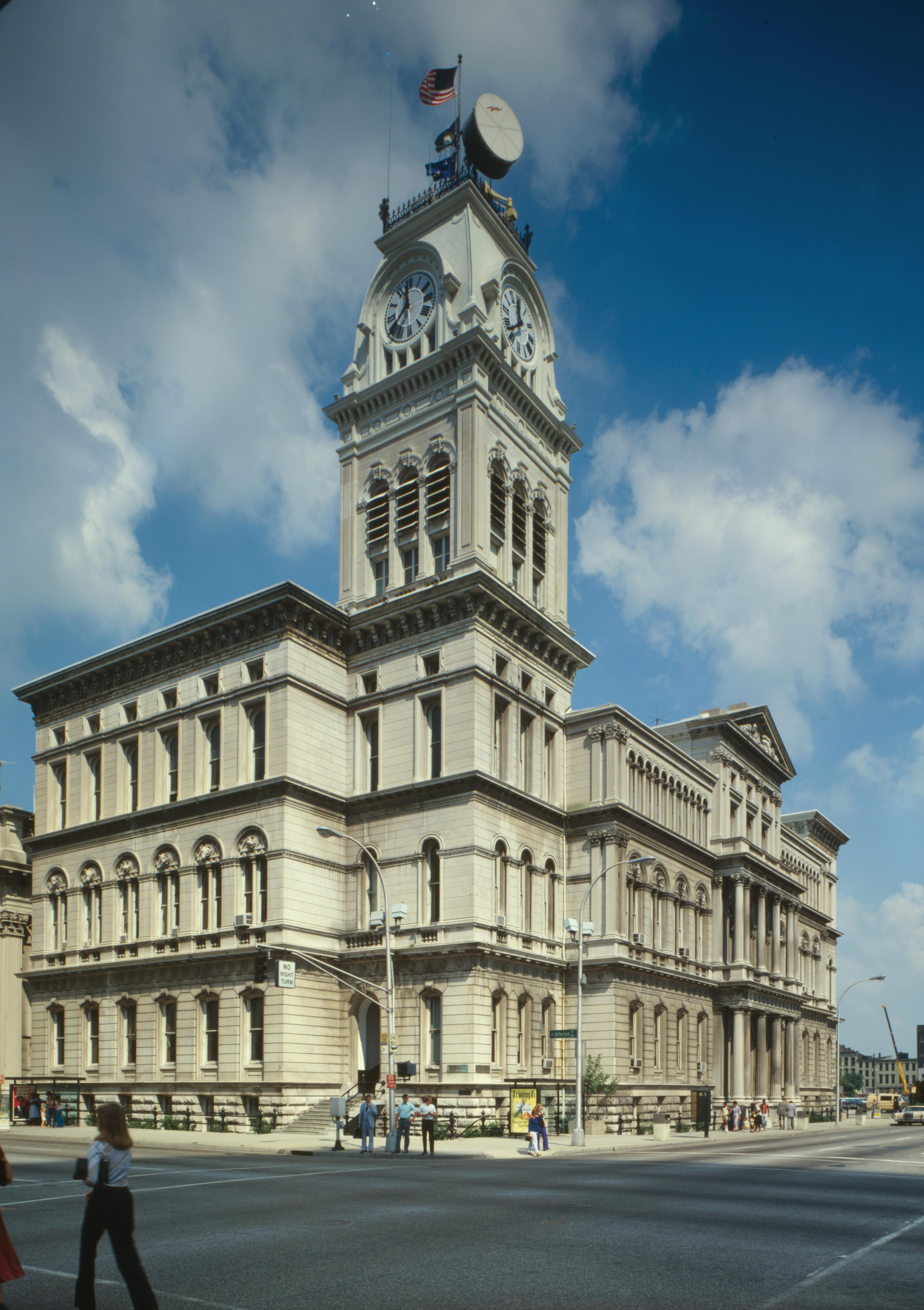 City Hall, 601 West Jefferson Street, Louisville, Jefferson County, KY. The architecture is a blend of Italianate and French Second Empire.